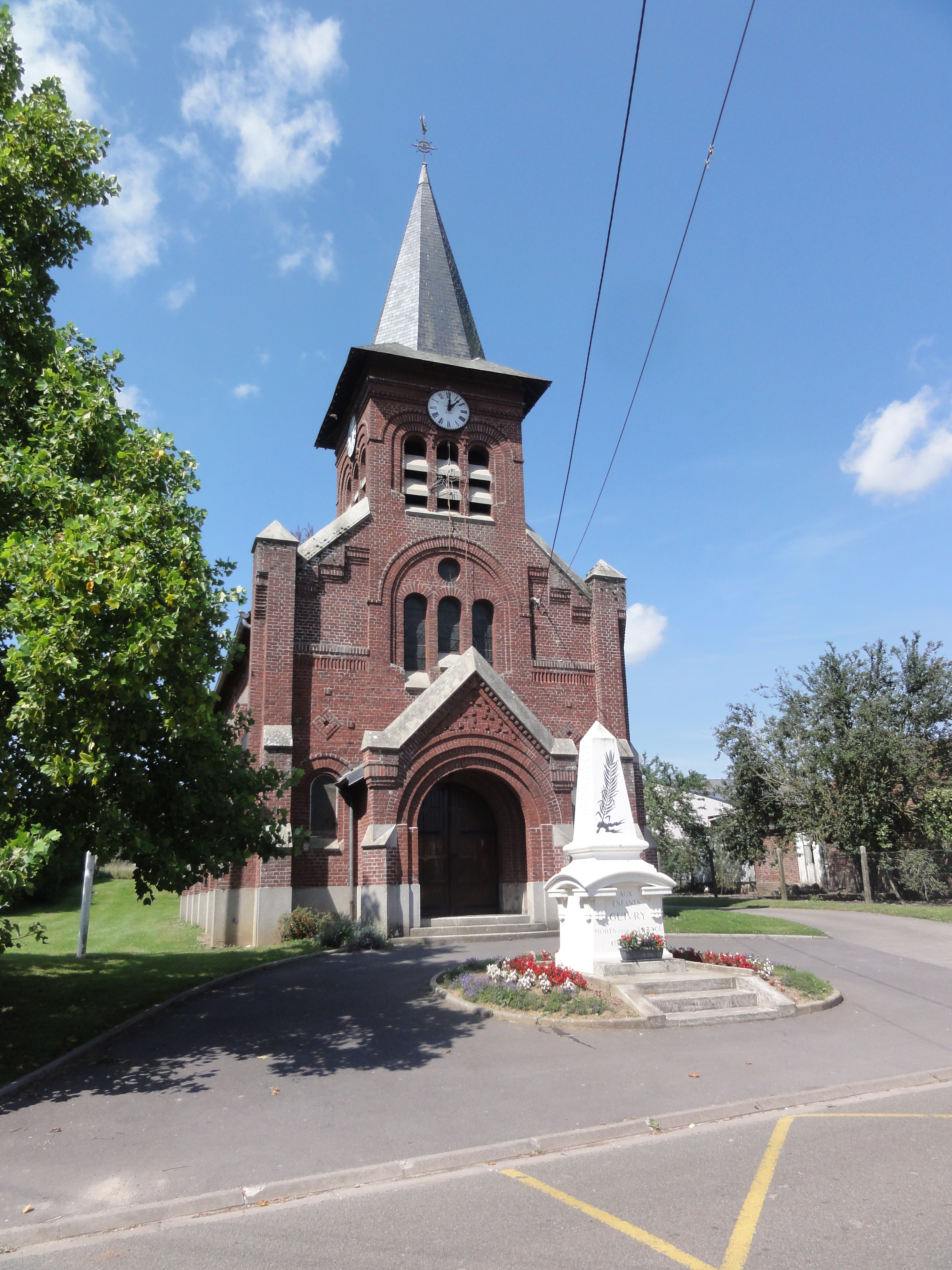 Guivry (Aisne) église Saint-Jean- Baptiste